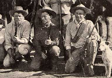 Burnham in Africa. Close up of three British South Africa Company Scouts of the First Matabele War: Bain (left); Frederick Russell Burnham (center); Maurice Gifford (right)